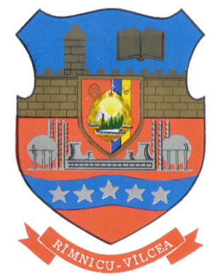 Communist coat of arms of Rîmnicu-Vîlcea municipality, Vîlcea County, Socialist Republic of Romania.